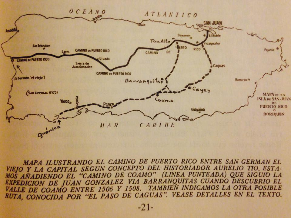 Mapa Ilustrando el camino de Puerto Rico entre San Germán el viejo y la Capital según el concepto del historiador Aurelio Tio.